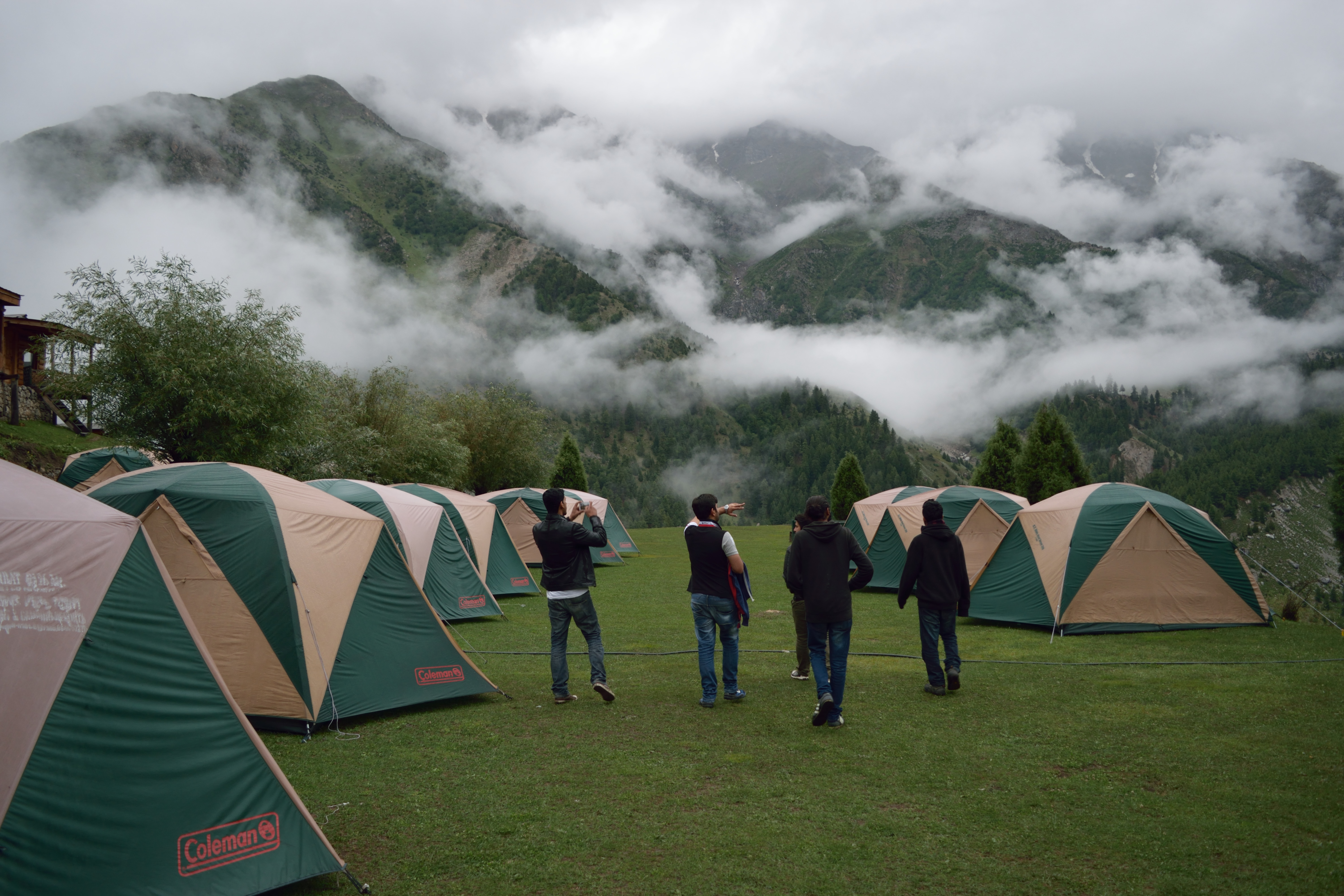 Fairy Meadows a splendid hill station.